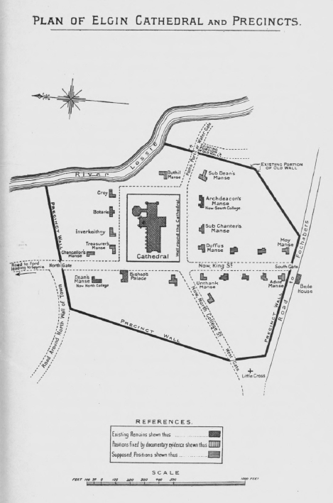 Map showing the delimits of the Chanonry